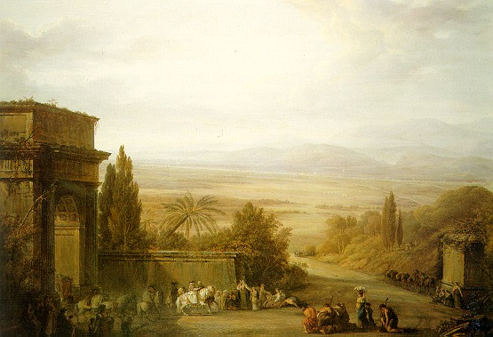 Pius VI's visit to the Pontine Marshes.label QS:Len,"Pius VI's visit to the Pontine Marshes." label QS:Lfr,"Pie VI aux Marais Pontins" label QS:Lit,"Pio VI alle Paludi Pontine"